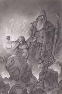 The Spook, book character, as imagined by Allan Barbeau (not the official book illustrator)